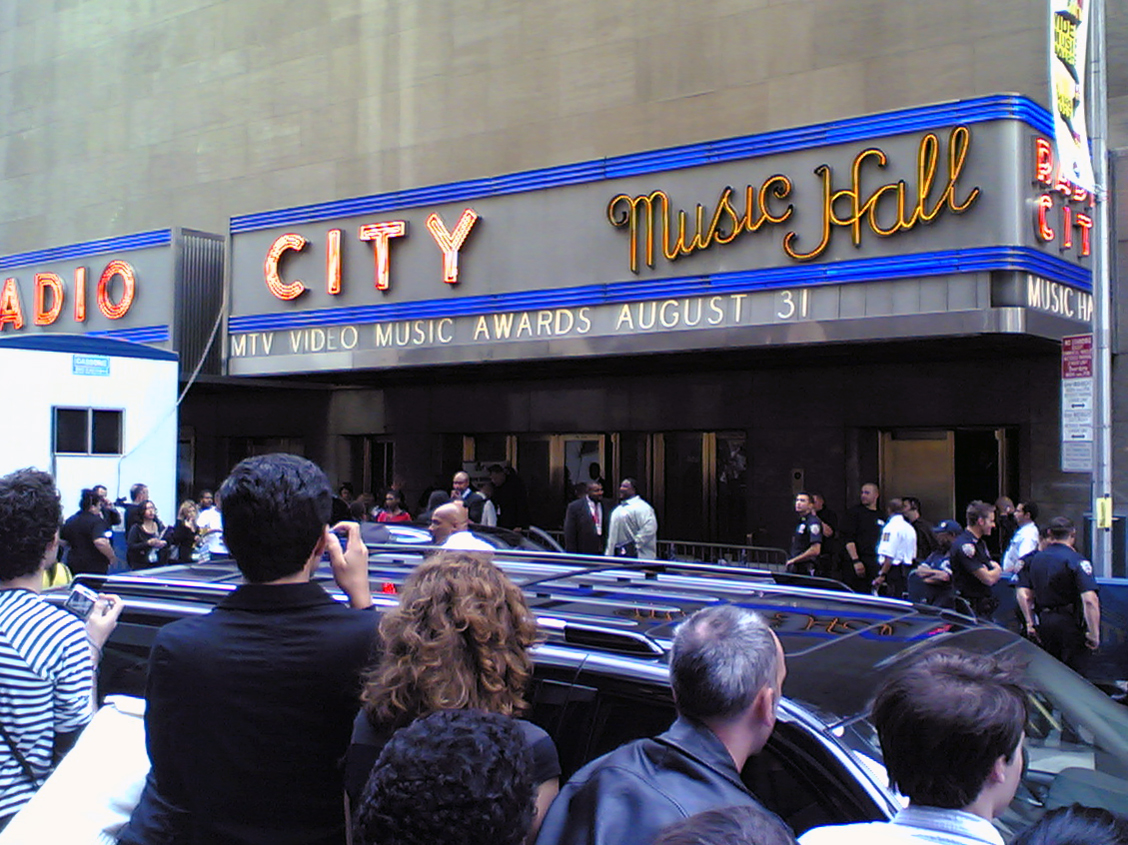 The MTV Video Music Awards at Radio City Music Hall. New York City. August 31, 2006.